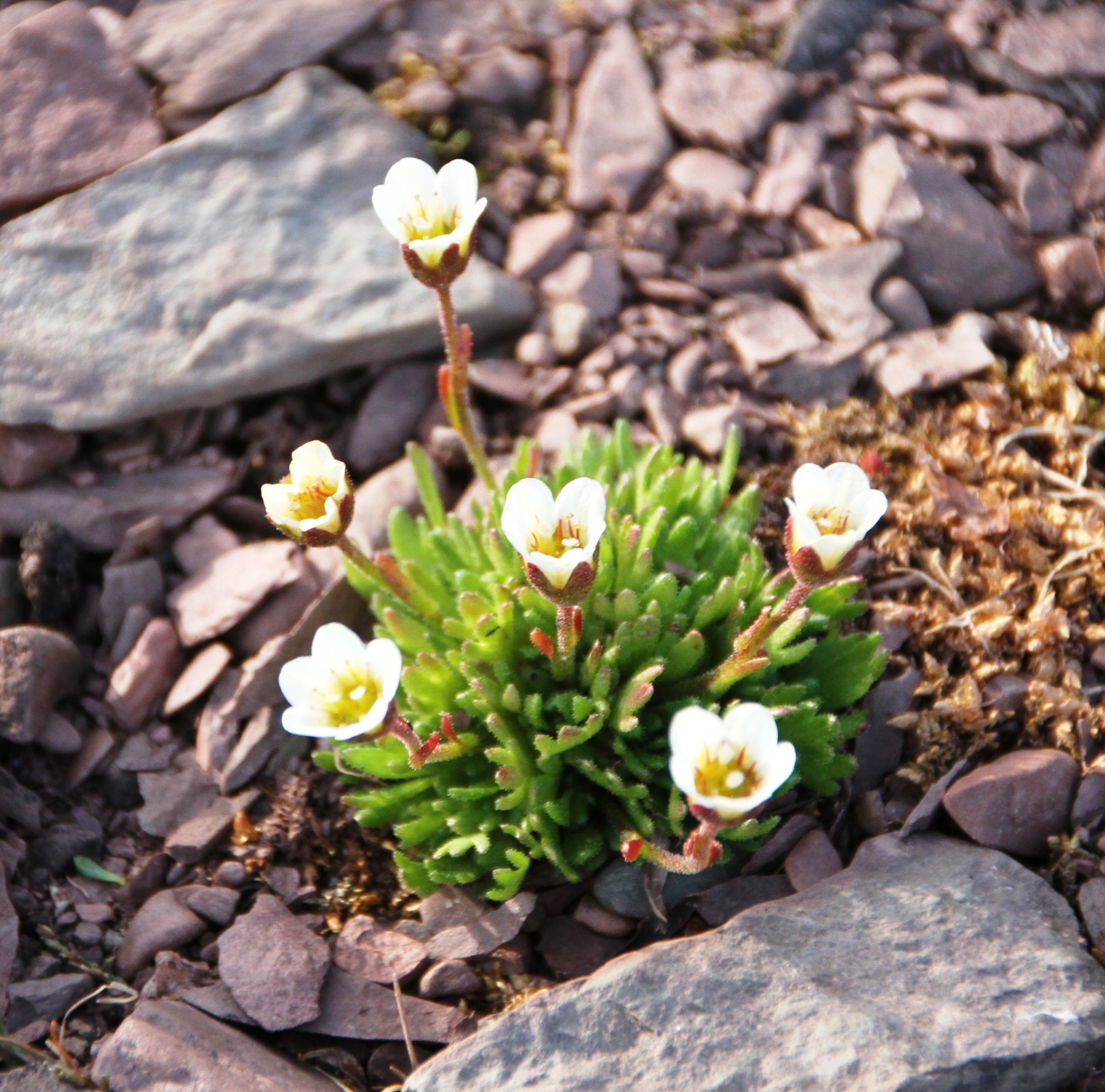 Saxifrage flowers observed at the island Spitsbergen - Svalbard. August 2012.